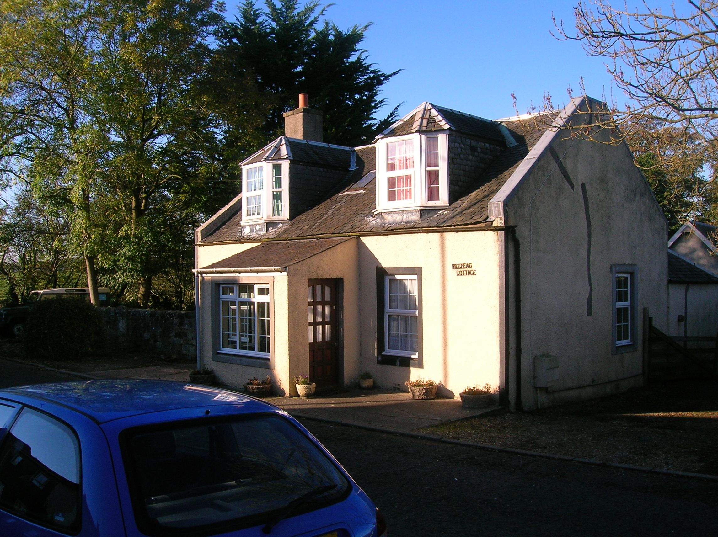 Righead toll, Stewarton, East Ayrshire, Scotland.